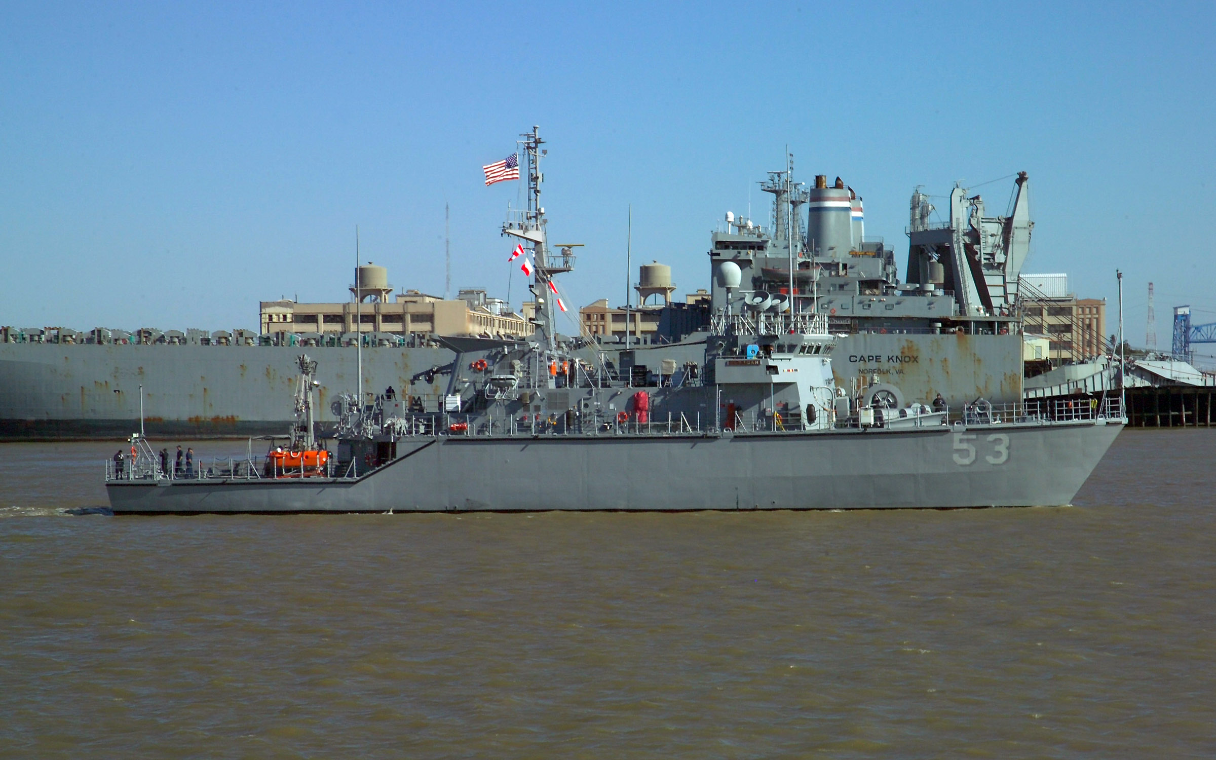 New Orleans (Oct. 23, 2006) — Mine warfare ship USS Pelican (MHC-53) departs from Naval Support Activity (NSA) New Orleans. Pelican conducted a three-day port call to the New Orleans before returning to her homeport at Naval Station Ingleside, Texas.